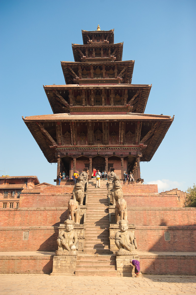 Bhaktapur, Nepal